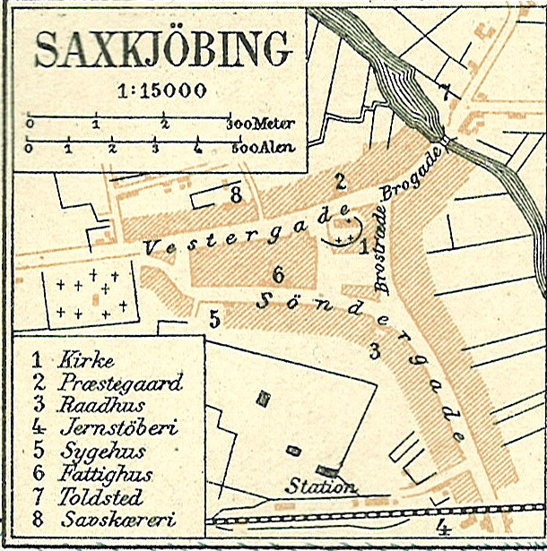 Map of Sakskøbing on Lolland in Denmark